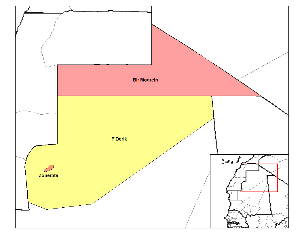 Map of the departments of Tiris Zemmour region of Mauritania. Created by Rarelibra 20:14, 28 September 2006 (UTC) for public domain use, using MapInfo Professional v8.5 and various mapping resources.